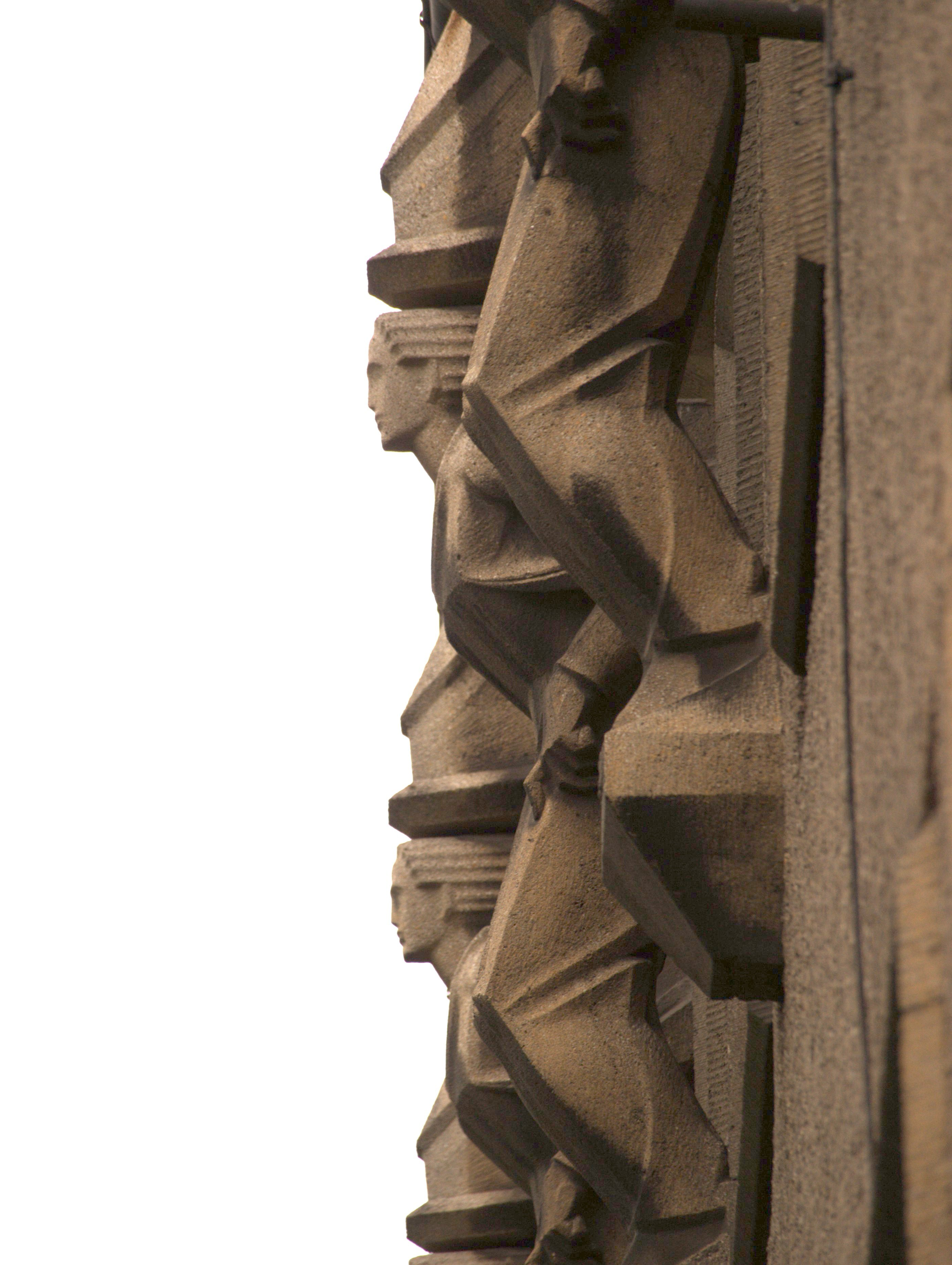 Detailed view at the figures at Stadtbad Lichtenberg (Berlin)